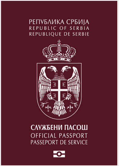 Front cover of a Serbian official passport.